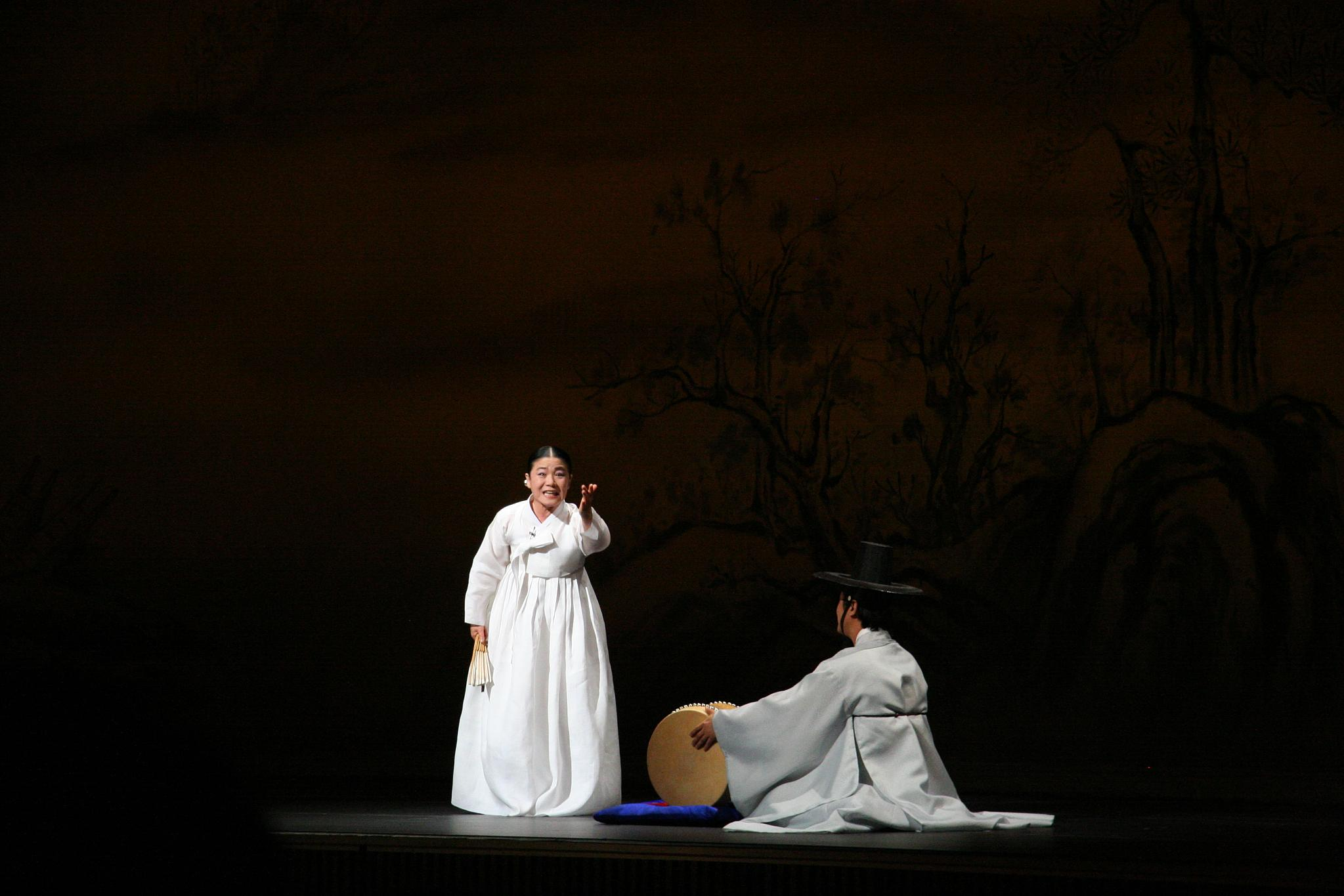 Heungbuga (Heungbu's song), one of pansori music performed by the myeongchang (maestro), Ahn Suk-seon for the attendees of the World Library and Information Congress at Sejong Center, Seoul, South Korea, 2006